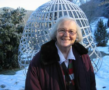 Mathematician Yvonne Choquet-Bruhat at the workshop "Mathematical Aspects of General Relativity" in Oberwolfach, 2006.